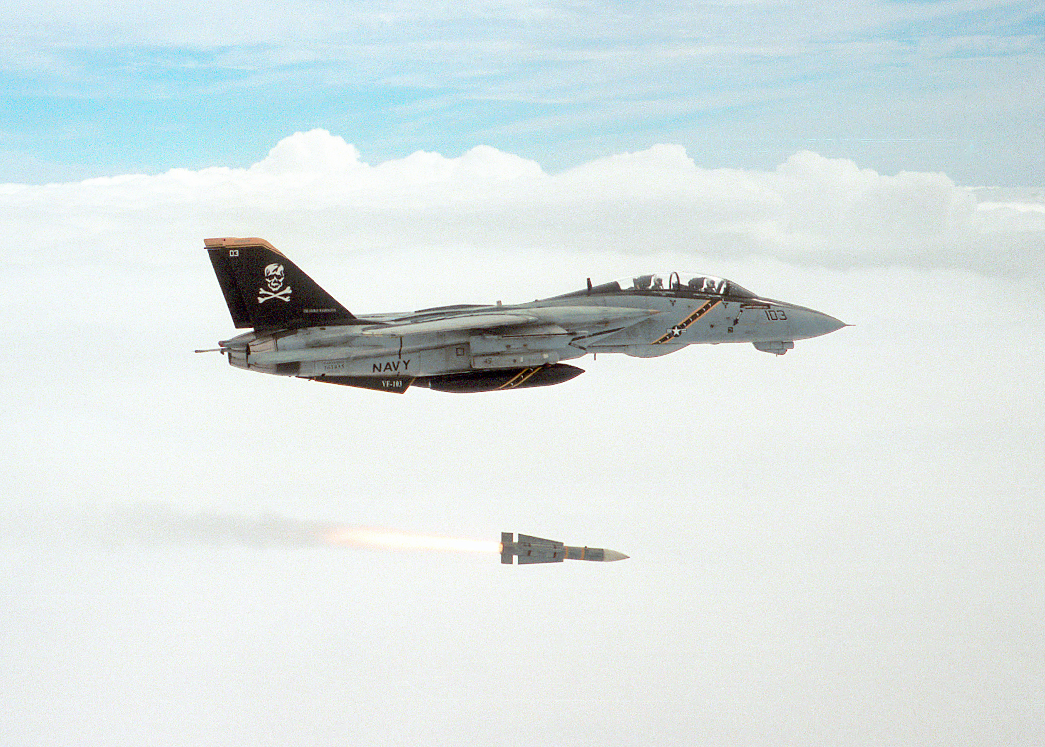 020924-N-1955P-001 At sea with USS George Washington (CVN 73) Sep. 24, 2002 -- Lt. West McCall, an F-14B “Tomcat” pilot from Deland, Fla., and Lt. Kimberly Arrington, a Radar Intercept Officer from King, N.C., both assigned to the “Jolly Rogers” of Fighter Squadron One Zero Three (VF-103), test fire a Phoenix air to air missile as part of the annual proficiency test during Exercise Mediterranean Shark. The Phoenix missile is the Navy's only long-range air-to-air missile. It is an airborne weapons control system with multiple-target handling capabilities. Exercise Mediterranean Shark is a bilateral training exercise conducted in Morocco by a U.S. Marine Expeditionary Unit MEU/SOC (Special Operations Capable), to show the effectiveness of the Marine Air Ground Task Force (MAGTF). George Washington and her embarked Carrier Air Wing Seventeen (CVW-17) are on a scheduled six month deployment and have participated in combat missions in support of Operation Enduring Freedom and Operation Southern Watch. U.S. Navy photo by Capt. Dana Potts. (RELEASED)